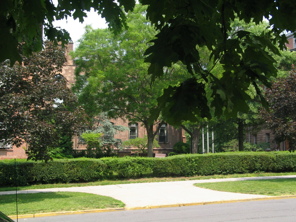 One of the building of the Rutgers University in New Brunswick.